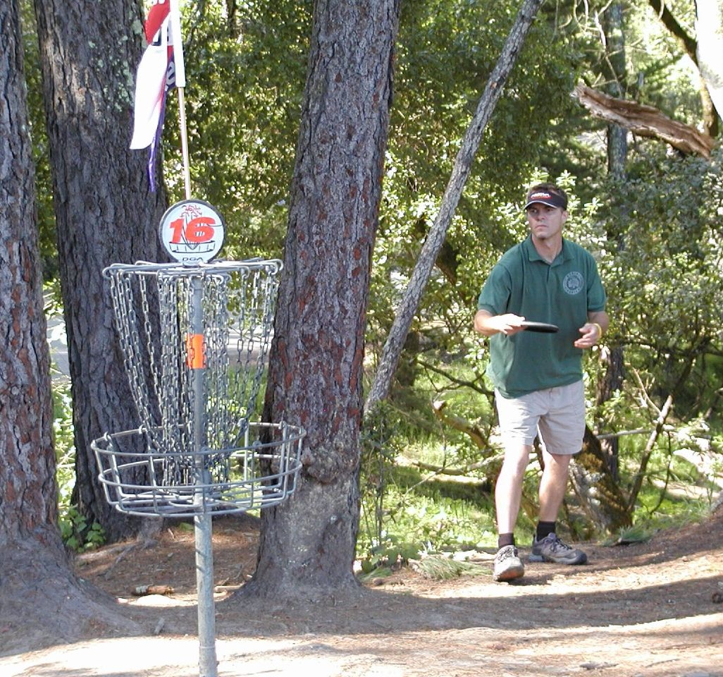 2005 PDGA Master's Cup Amateur Desmond Knibbs within putting range